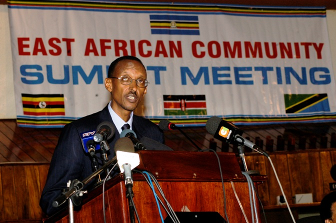 Paul Kagame, president of Rwanda, at the 8th East African Community summit held in November 2006